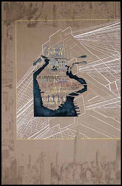 New York: This is My City!; Cities of Peace Exhibition